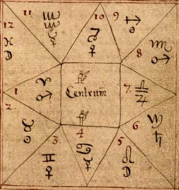 The twelve astrological houses. Upload from Image:12 houses of heaven.jpg 14/08/06 This is the classical (western) representation for a horoscope, a square divided in twelve houses. This manuscript shows the astrological signs corresponding to each house, and the planet that rules the house (probably by position or by rulin the sign). Micheletb 12:59, 14 August 2006 (UTC)